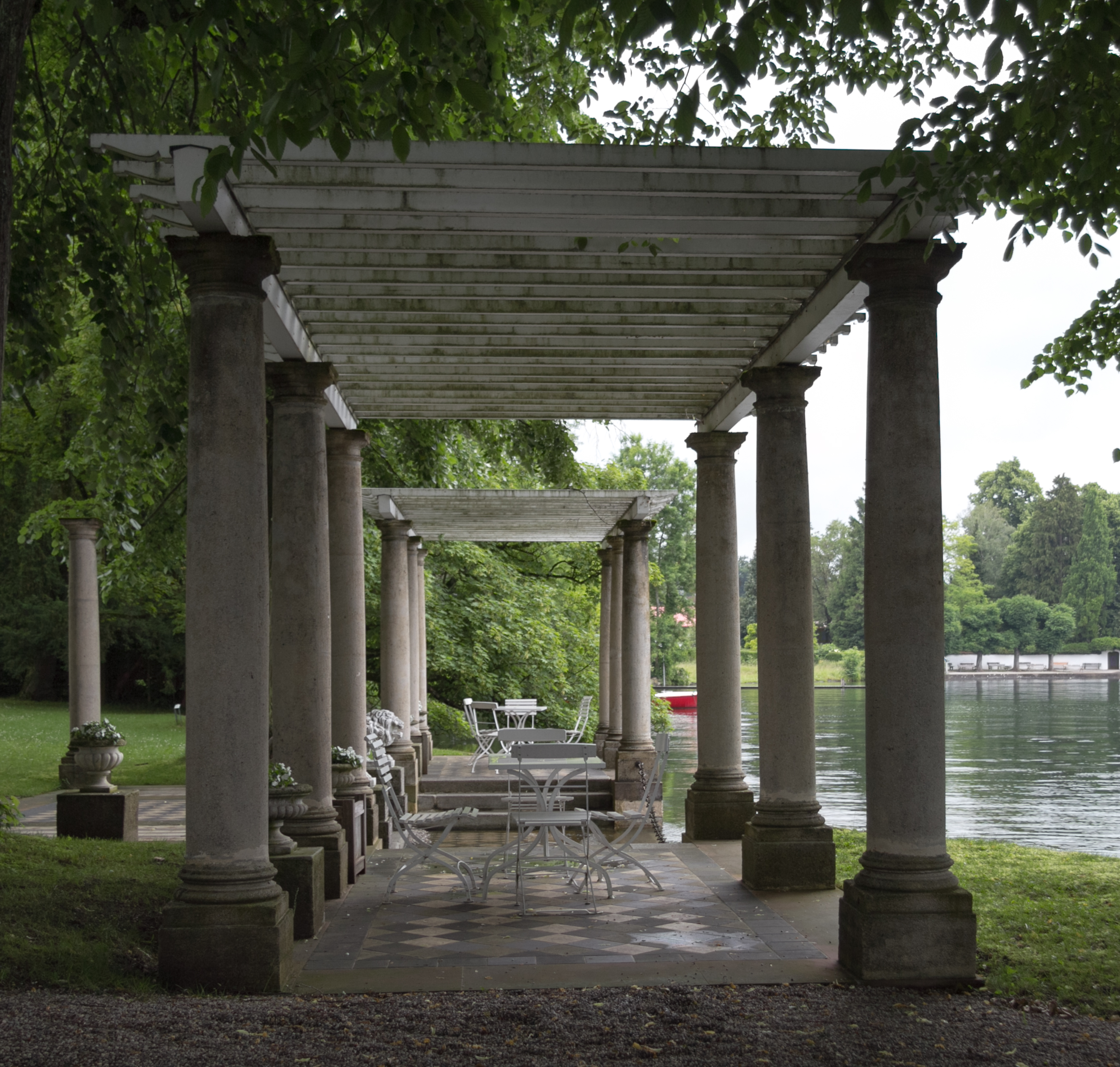 The palace garden of the Evangelische Akademie Tutzing in Tutzing. Pergola with furniture.